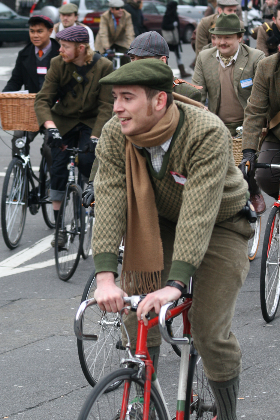 Tweed Run on 24/01/2009 in London